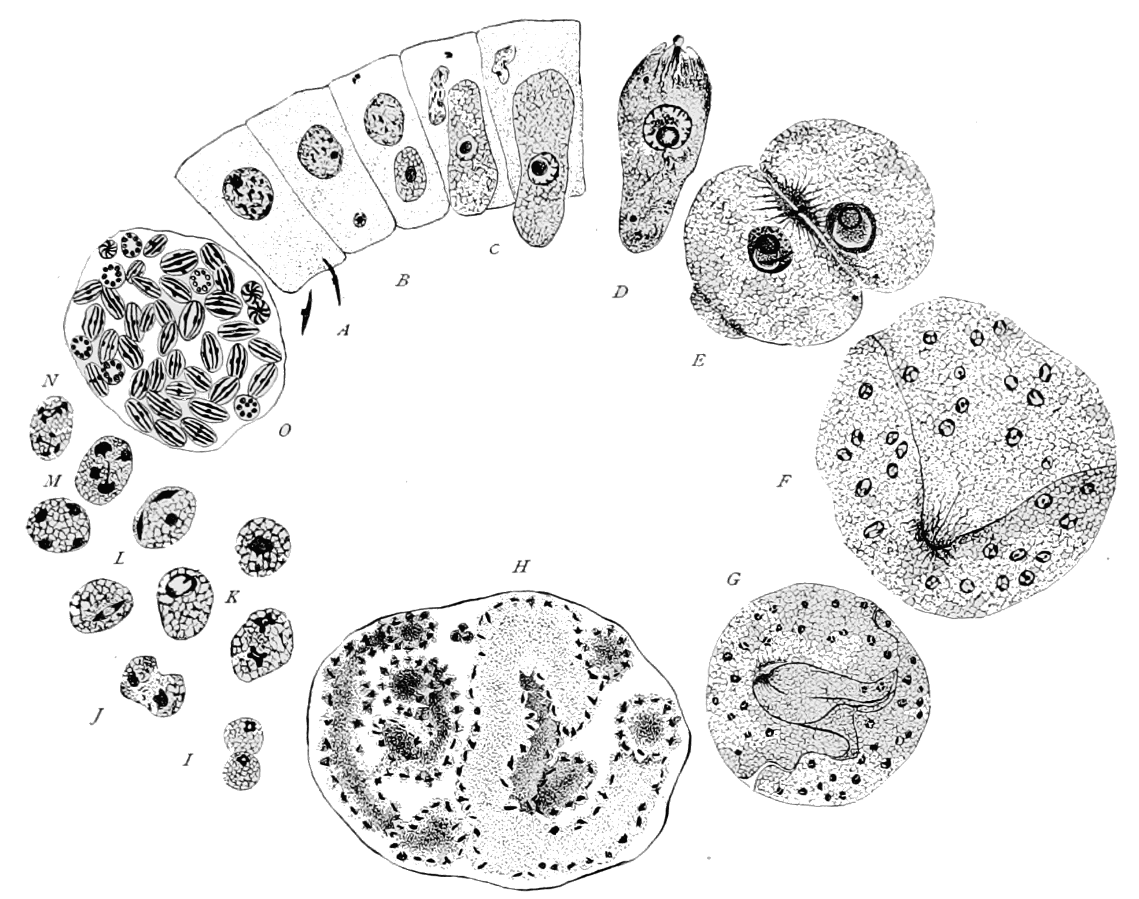 Life cycle of a gregarine